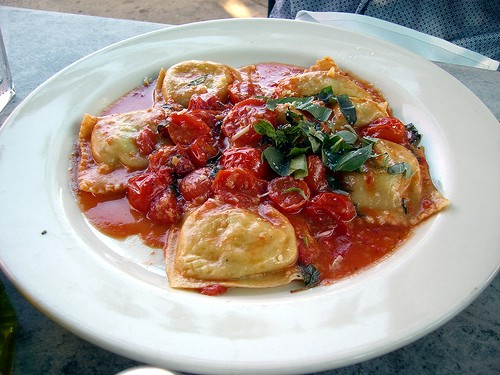 Ravioli Marinara (Mangia Trattoria)